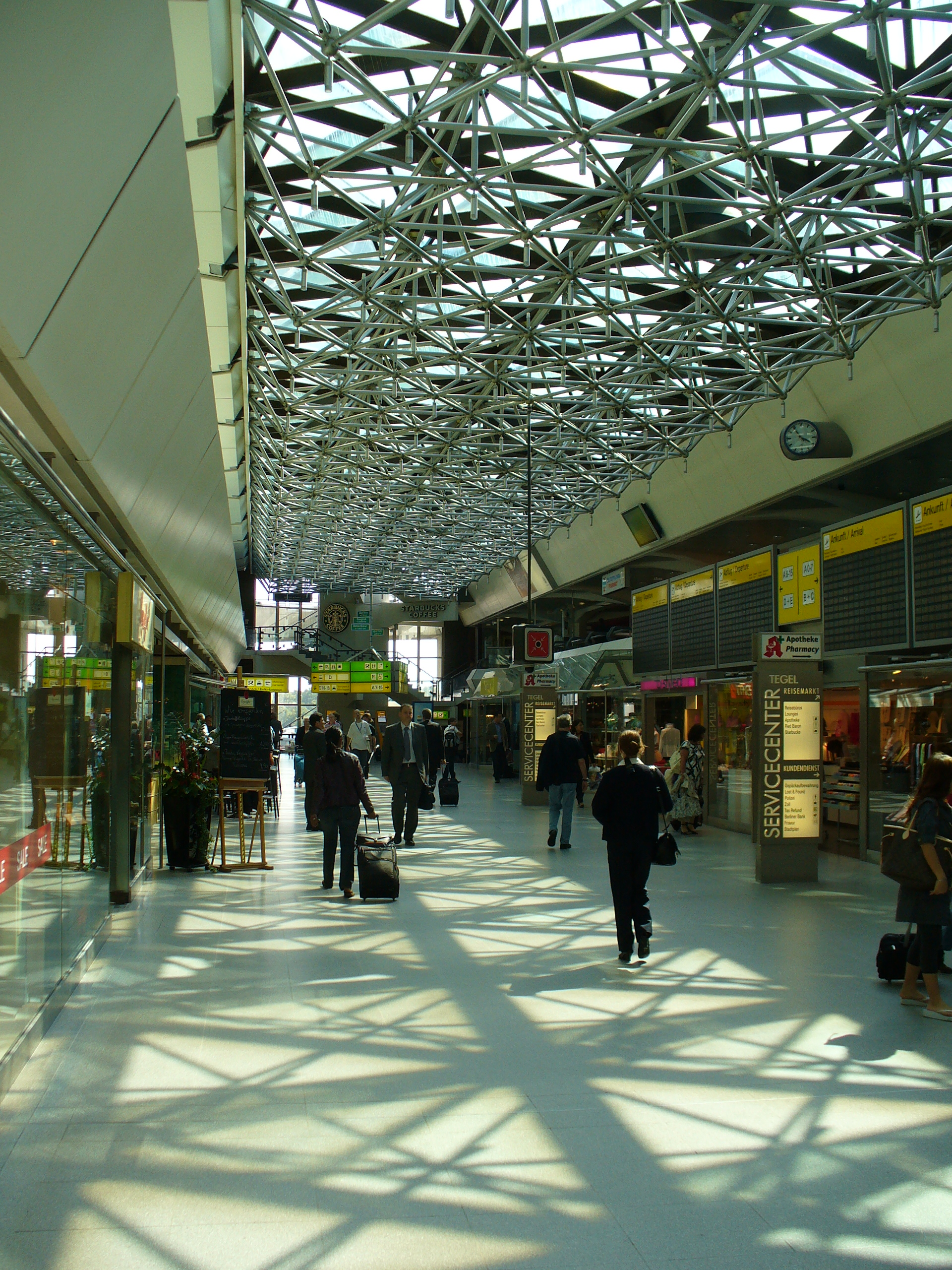 Main Intrance Hall at Berlin Tegel Airport, featuring shops and flight information